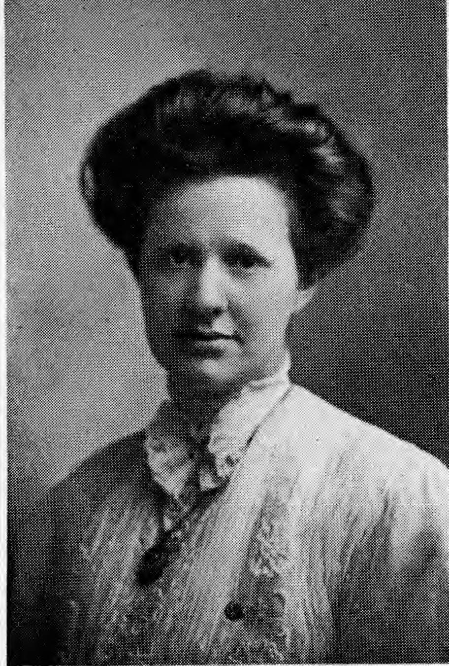 From "Mildred Albro Hoge Richards was a zoologist specializing in genetics. A native of Baltimore, Richards graduated from Goucher College (then the Woman’s College of Baltimore) with a degree in zoology in 1908. She taught at Western High School in Baltimore for three years, the last of which she spent as a part-time student at Johns Hopkins University, before enrolling at Columbia University in 1911. While there, Richards focused her research on animal genetics, and earned her A.M. in 1912 and Ph.D. in zoology in 1914. She worked at the University of Indiana as an instructor in zoology from 1914 to 1917 before retiring to care for her family. She also taught at Rocky Mountain Biological Laboratory in Colorado for several summers, and returned to teaching as an associate professor at the University of Oklahoma in 1947 for a year before moving to Arizona, where she did substitute teaching for some time. For much of her professional career, Richards published eleven articles in scientific magazines, including the Journal of Animal Behavior, Journal of Experimental Zoology, American Naturalist, Biological Bulletin, and the Proceeding of Oklahoma Academy of Science. Richards passed away in 1968 in Arizona."